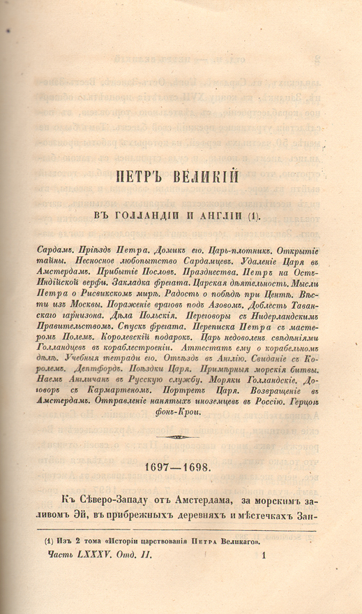 Peter the great, the article by Nikolay Ustryalov